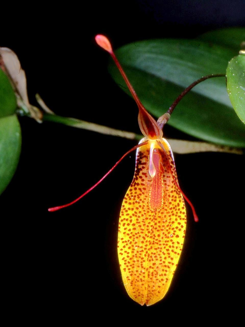 Restrepia contorta - flower